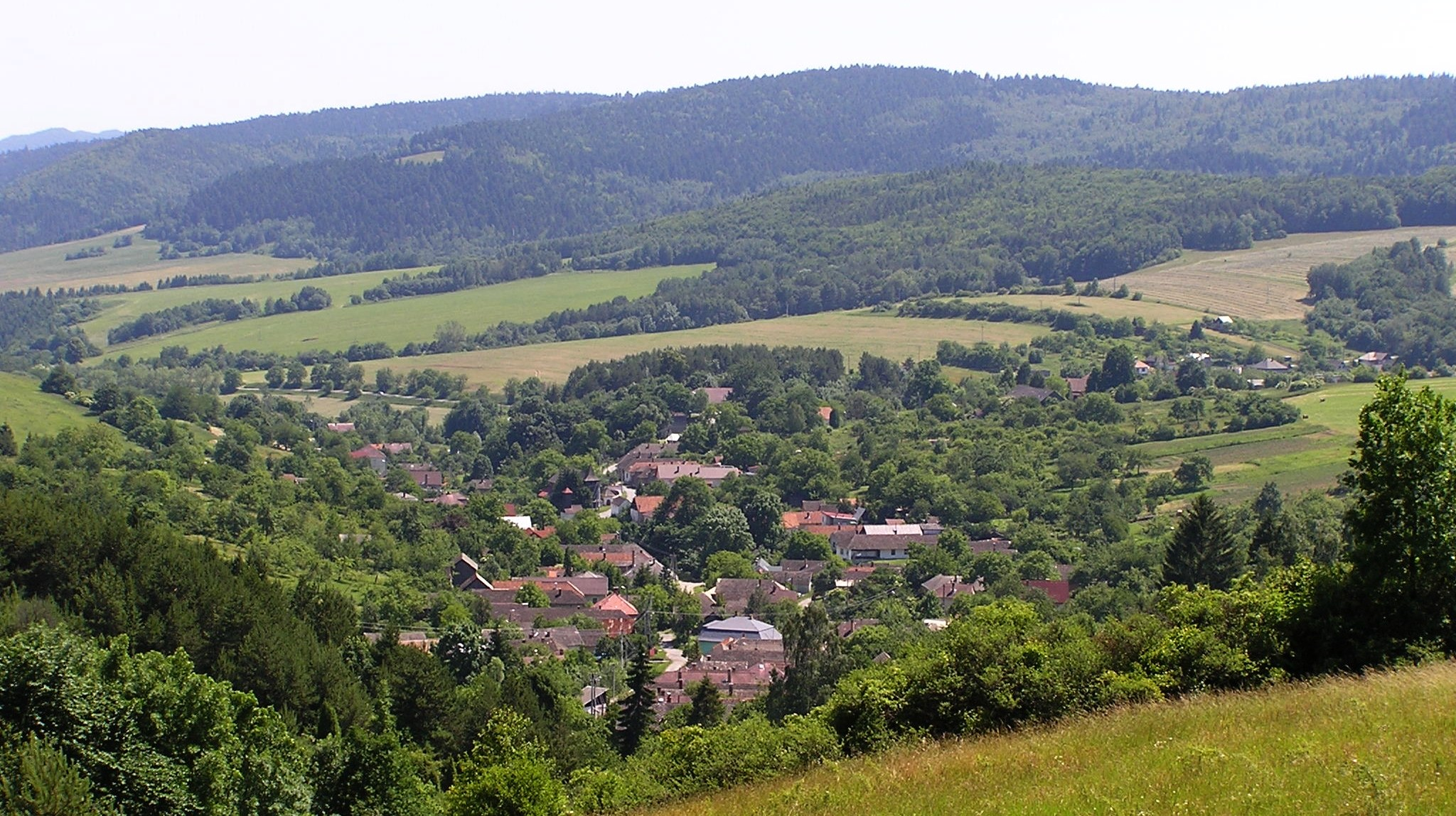 Slovakia, Saris region, Klenov village, panorama